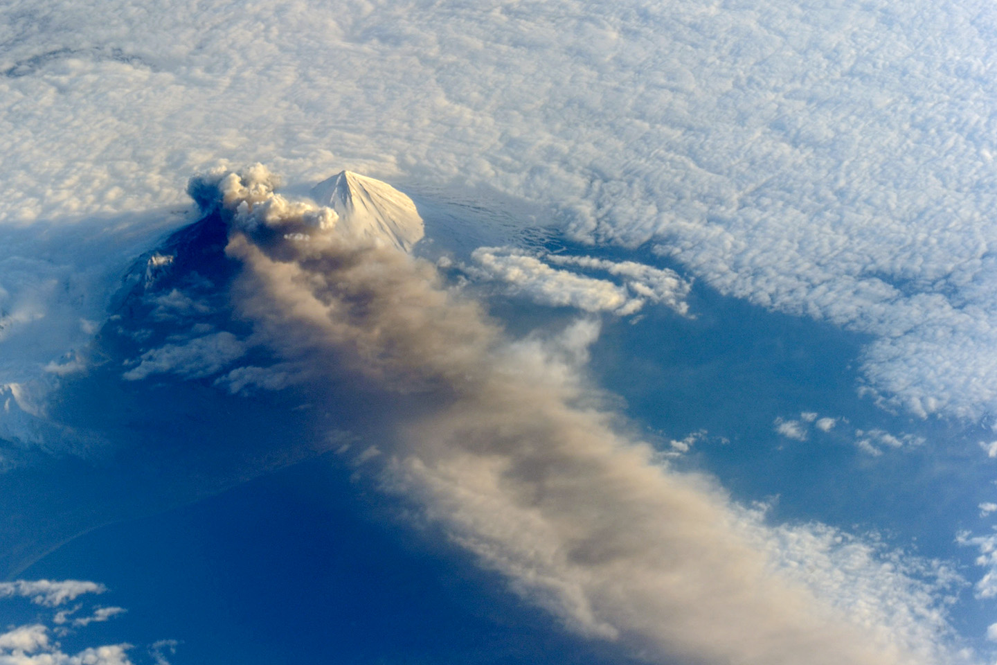 Astronauts aboard the International Space Station (ISS) photographed this striking view of Pavlof Volcano on May 18, 2013. The oblique perspective from the ISS reveals the three dimensional structure of the ash plume, which is often obscured by the top-down view of most remote sensing satellites. Situated in the Aleutian Arc about 625 miles (1,000 kilometers) southwest of Anchorage, Pavlof began erupting on May 13, 2013. The volcano jetted lava into the air and spewed an ash cloud 20,000 feet (6,000 meters) high. When photograph ISS036-E-2105 (top) was taken, the space station was about 475 miles south-southeast of the volcano (49.1° North latitude, 157.4° West longitude). The volcanic plume extended southeastward over the North Pacific Ocean.